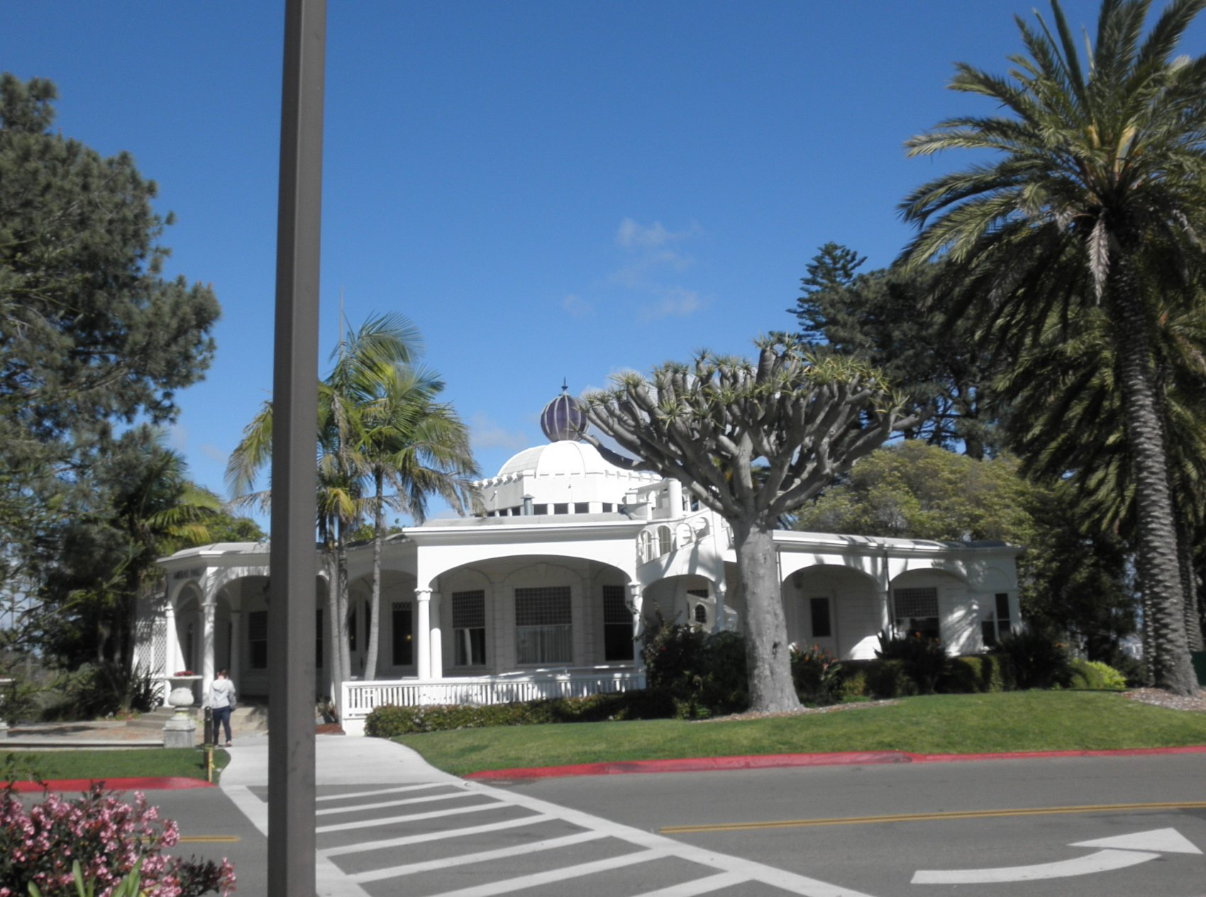 The Theosophy style administration building at Pt. Loma Nazarene University in San Diego.